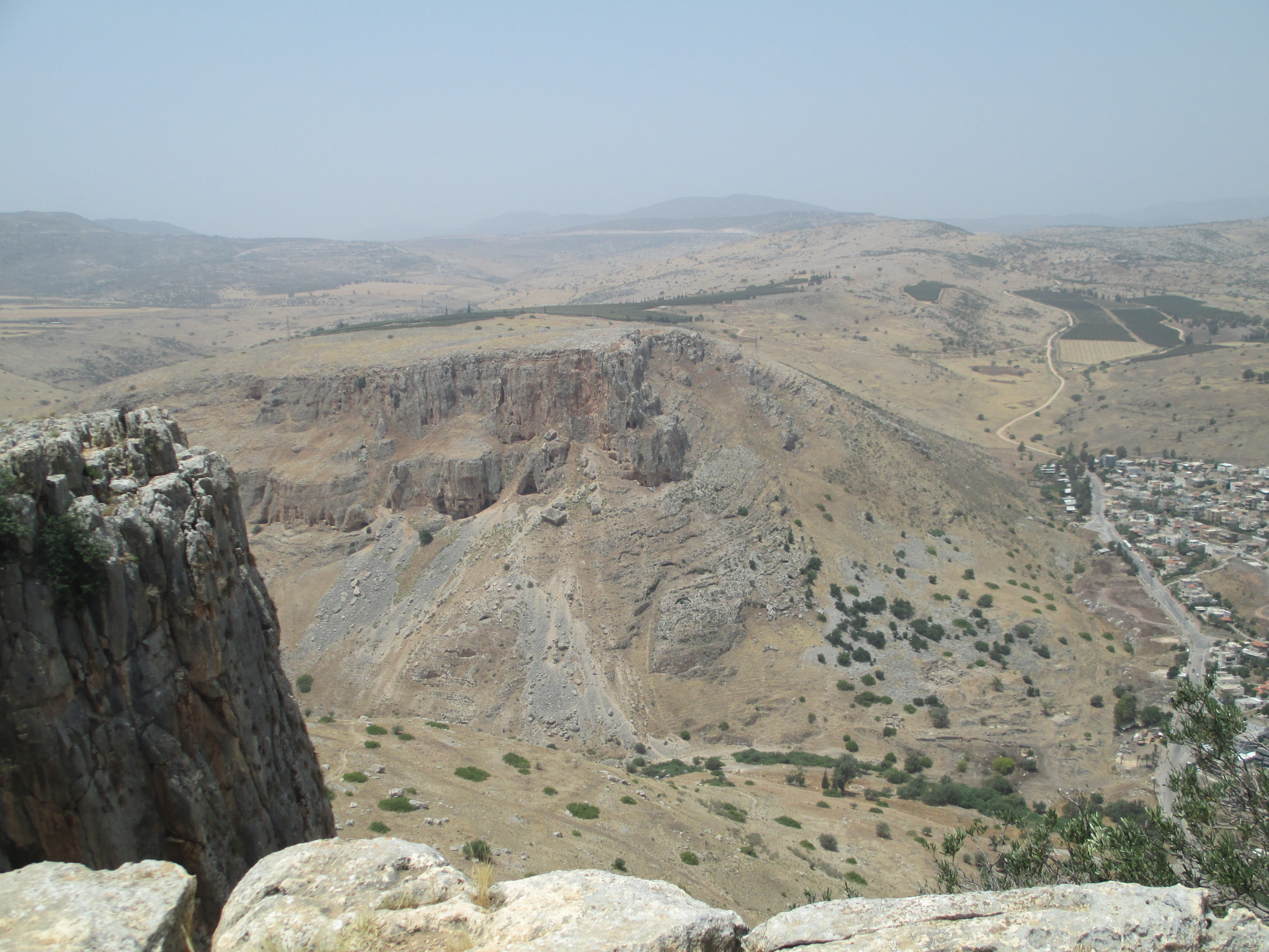 Mount Nitai